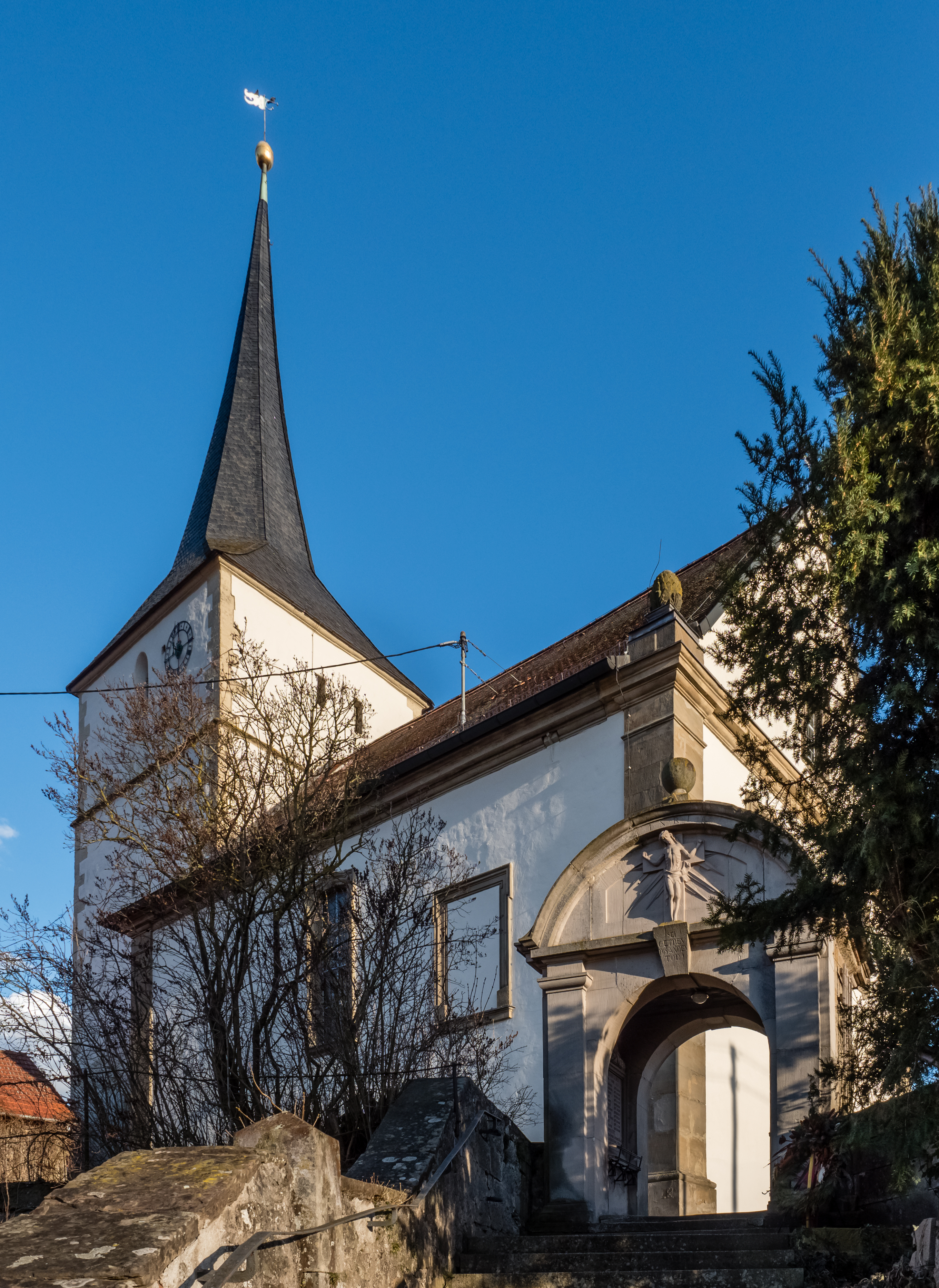 Evang.-Luth. Parish Vicariate Church St. Vitus in Junkersdorf in Koenigsberg in Lower Franconia